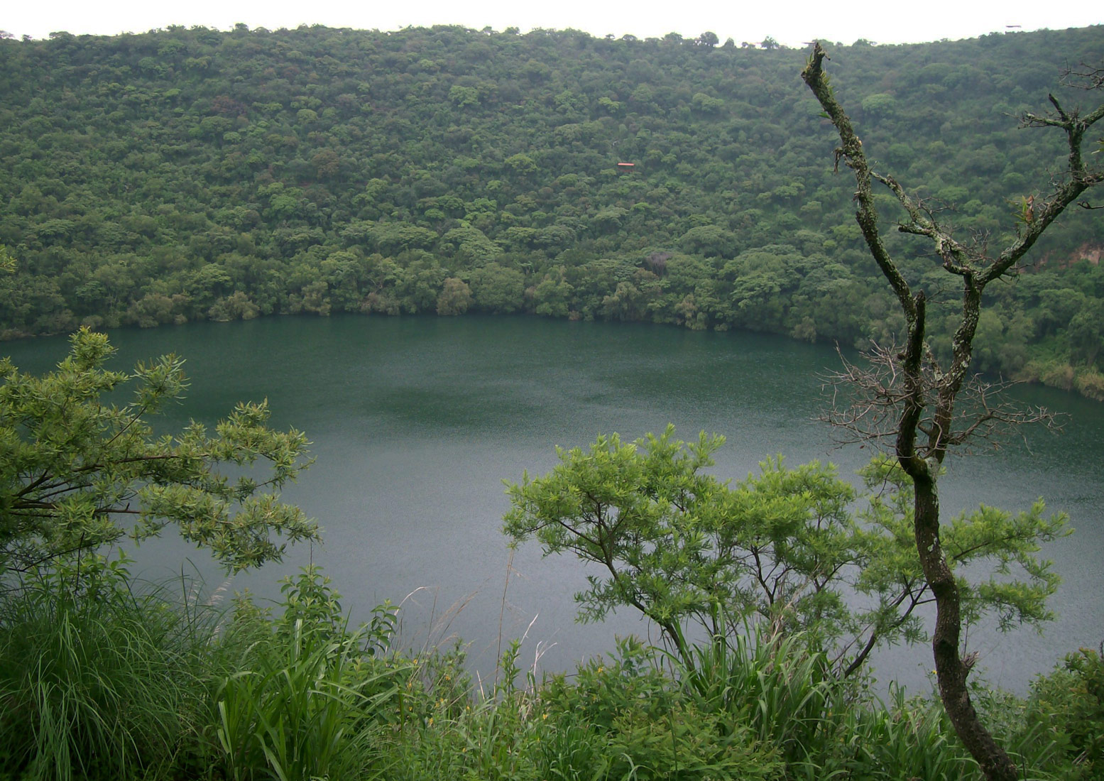 Lake on a volcano